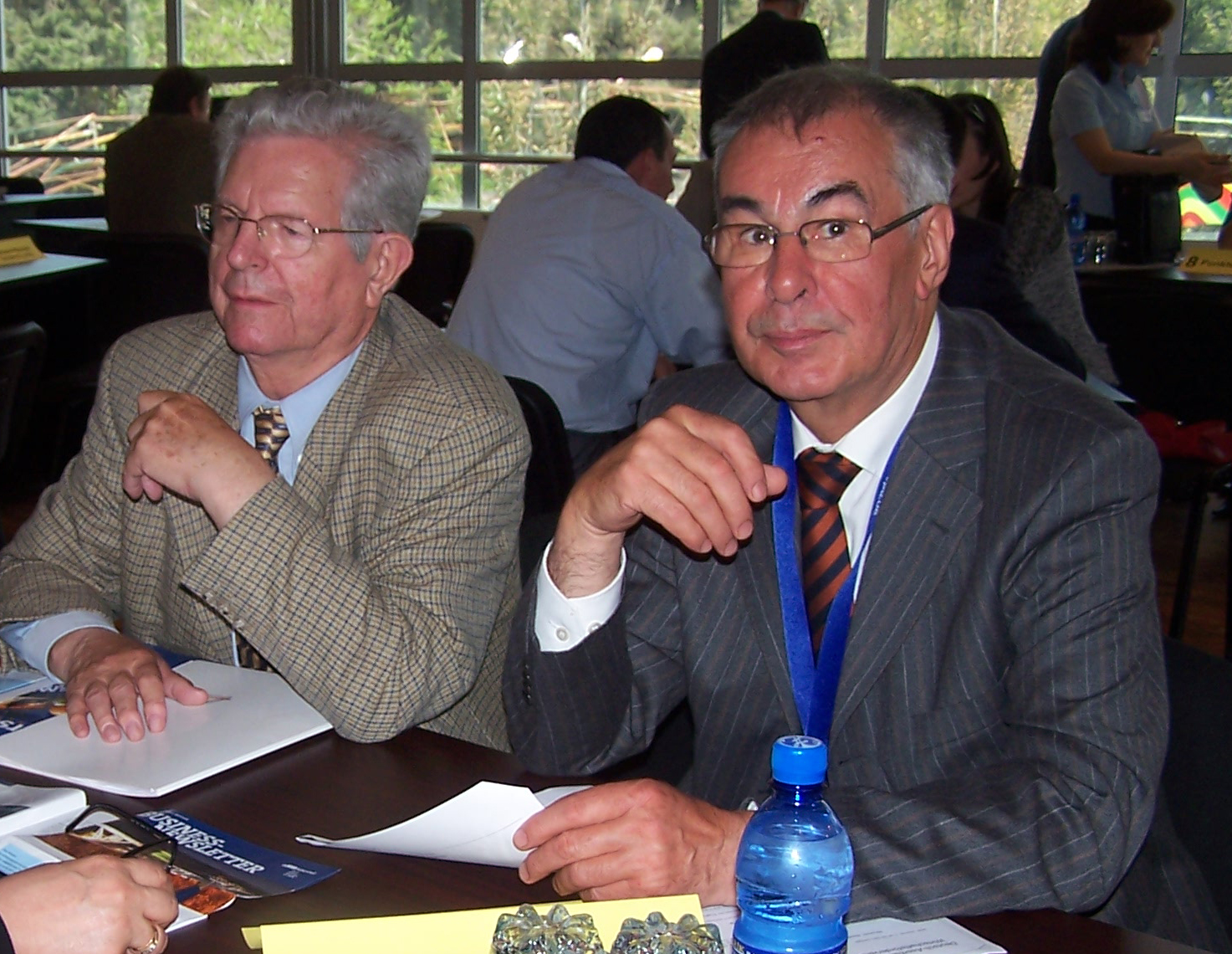 Prof. Norbert Langhoff and Prof. Klaus Thiessen in Baku, 2006